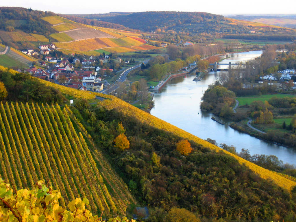 Vineyards in Autumn (Sylvaner Müller-Thurgau Domina grapes) viewed from the 'Teufelskeller' vineyards overlooking Randersacker near Würzburg in 5 Nov 2005. Lower Franconia in northern Bavaria - home of Frankonian (Franken) wines. The river is the River Main a tributary of the Rhine.